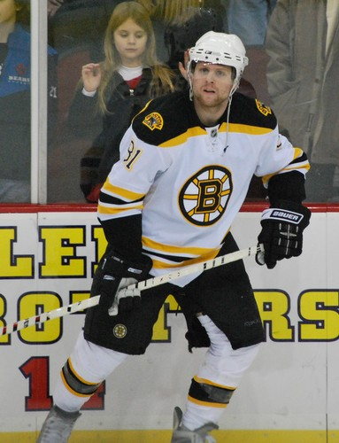 Cropped photo of Phil Kessel. Original size.